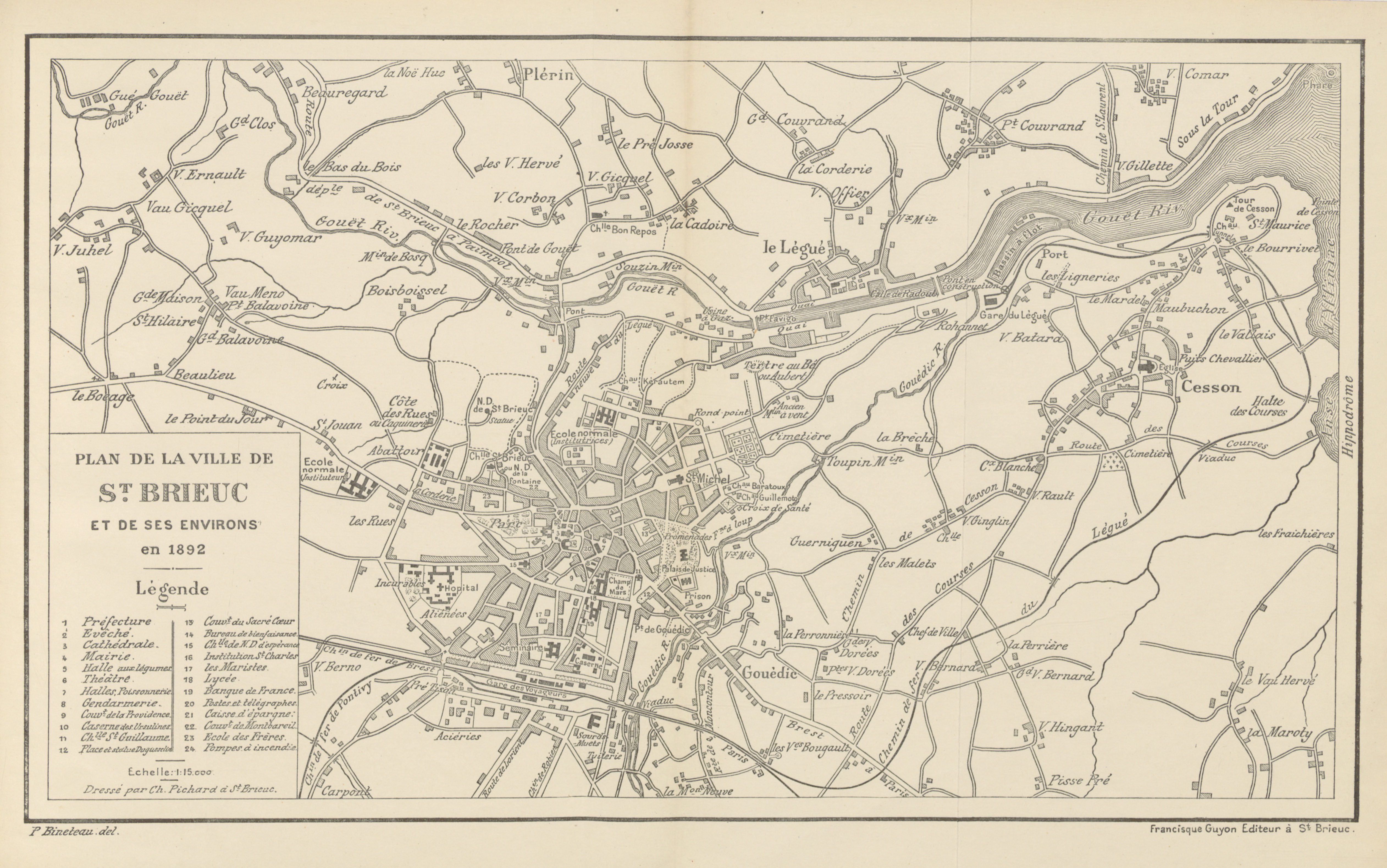 View this map on the BL Georeferencer service. Image taken from: Title: "A travers le vieux Saint-Brieuc. Souvenirs et monuments ... Illustrations de P. Chardin, etc. [With a biographical sketch of the author by A. de la Borderie.]" Author: DU BOIS DE LA VILLERABEL, Arthur - Viscount Contributor: CHARDIN, Paul. Contributor: LE MOYNE DE LA BORDERIE, Louis Arthur. Shelfmark: "British Library HMNTS 10172.k.6." Page: 303 Place of Publishing: Saint-Brieuc Date of Publishing: 1891 Issuance: monographic Identifier: 000991588 Explore: Find this item in the British Library catalogue, 'Explore'. Download the PDF for this book (volume: 0) Image found on book scan 303 (NB not necessarily a page number) Download the OCR-derived text for this volume: (plain text) or (json) Click here to see all the illustrations in this book and click here to browse other illustrations published in books in the same year. Order a higher quality version from here.